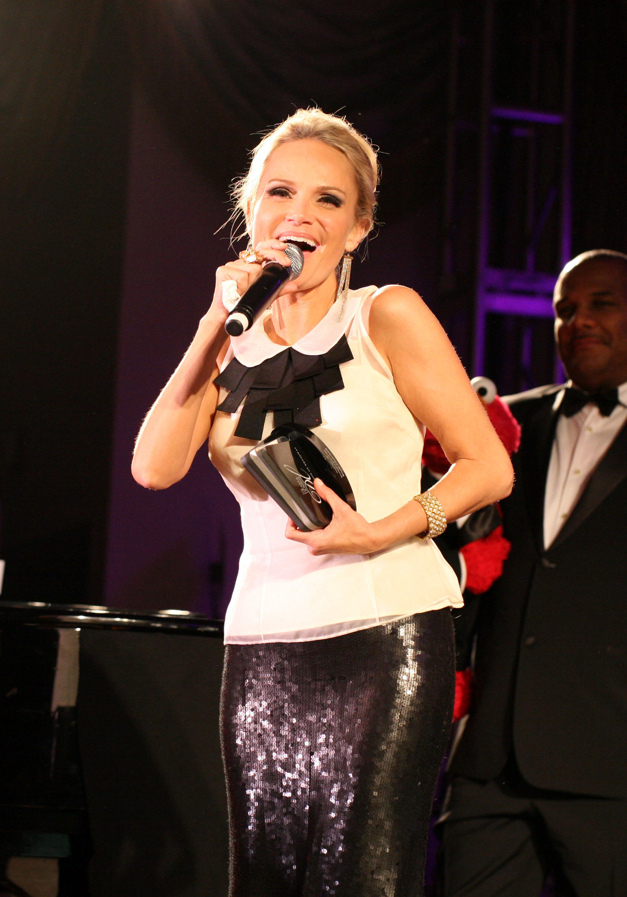 Kristin Chenoweth at the 2012 Drama League Benefit Gala.